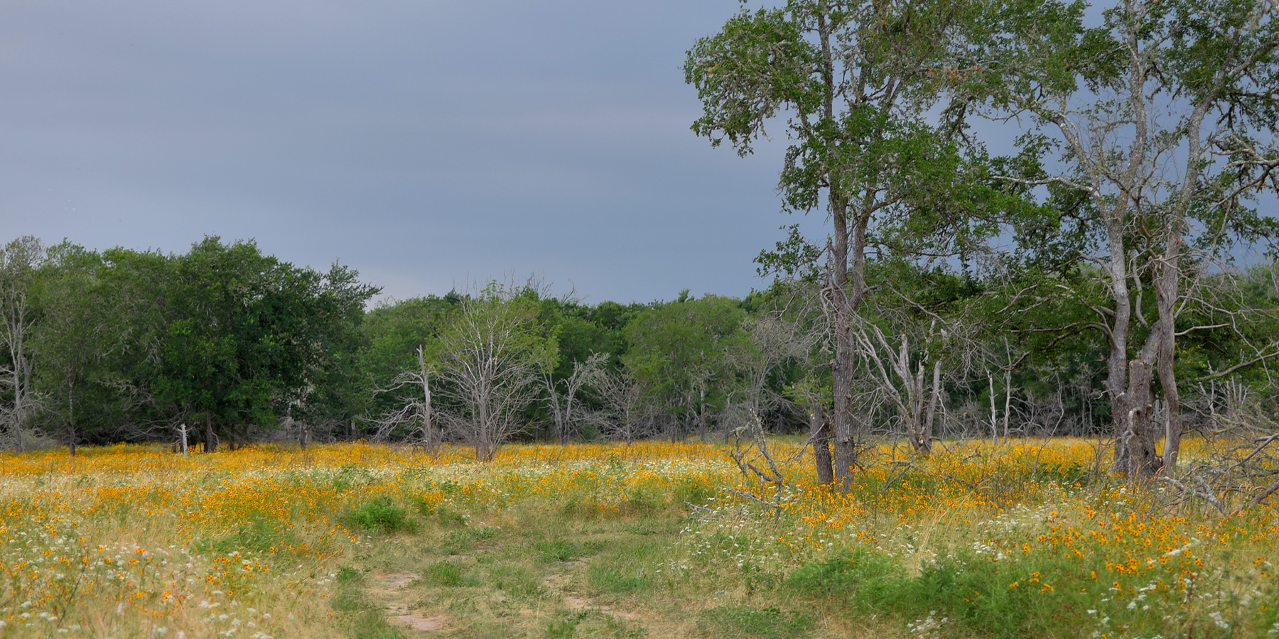 Lake Summerville State Park in the East Central Texas forests (Post Oak Savannah) ecoregion of Texas. Lee County, Texas, USA (30.2933°N, 96.6909°W, 77 m. elev.). Photographed on 11 May 2017 by William L. Farr.